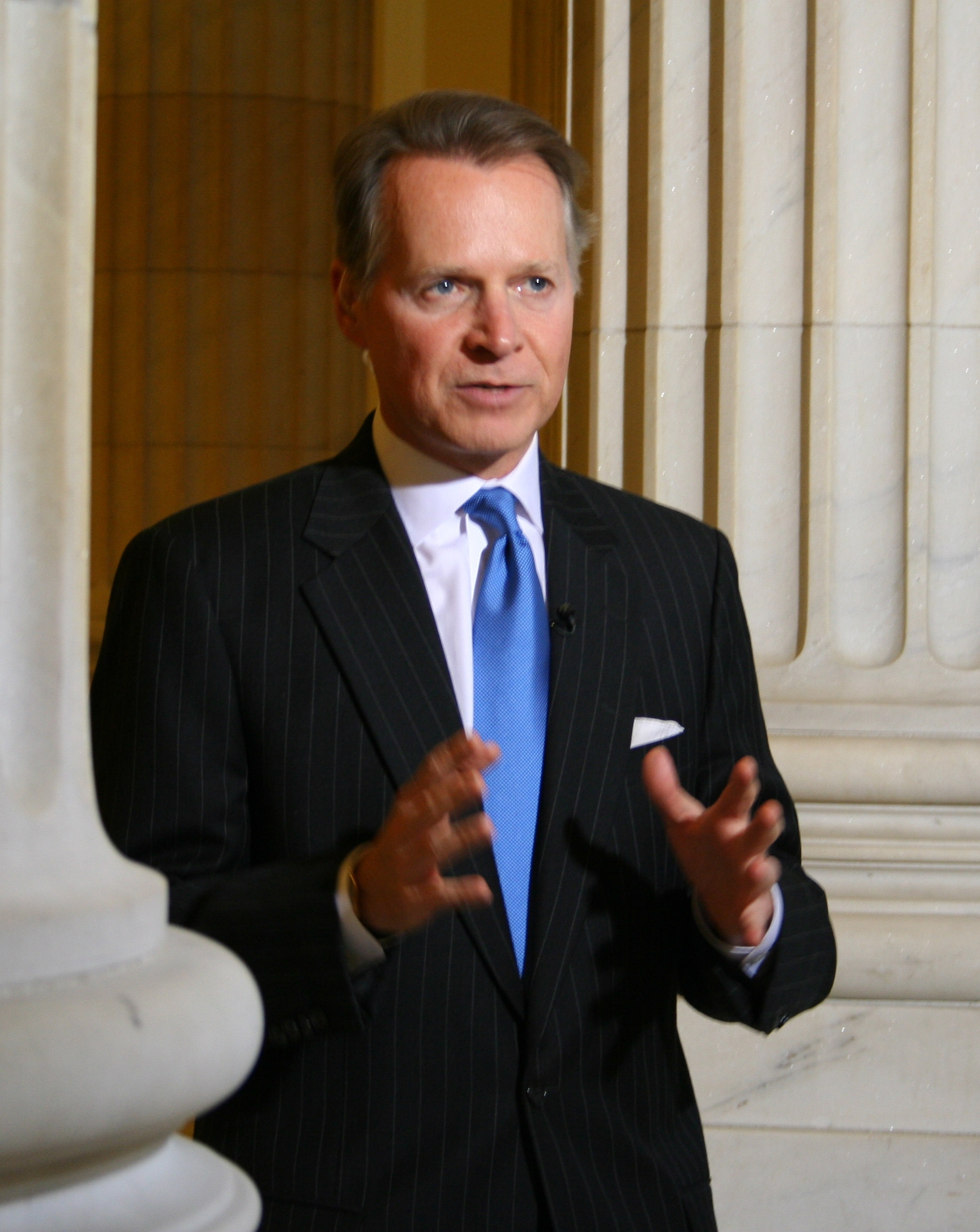 David Dreier, member of the United States House of Representatives.